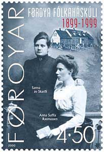 Sanna av Skarði and Anna Suffía Rasmussen Stamp FR 365 of the Faroe Islands Date of issue: 2000